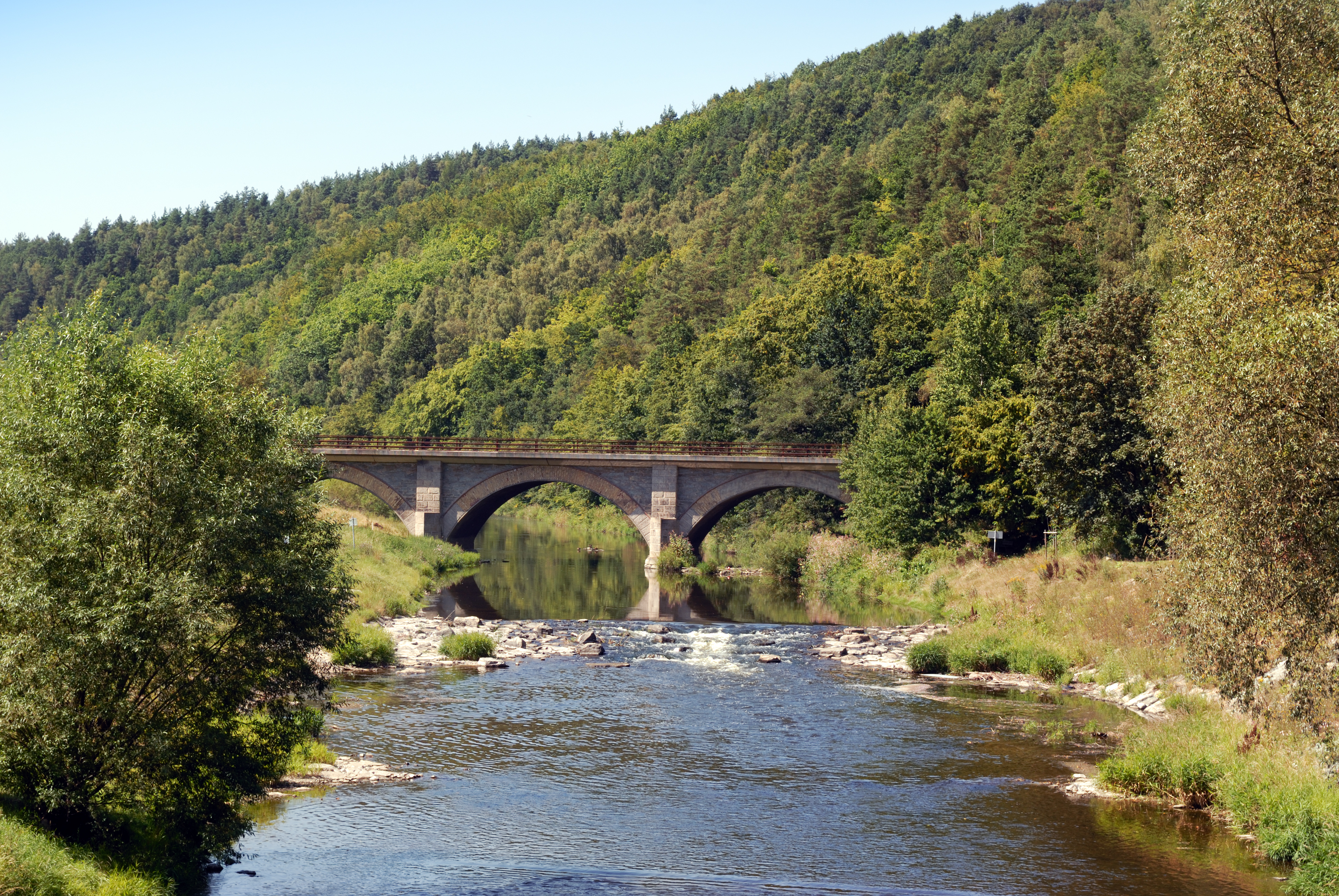 This image shows the river Weiße Elster in the district Dölau of the town Greiz, Germany.